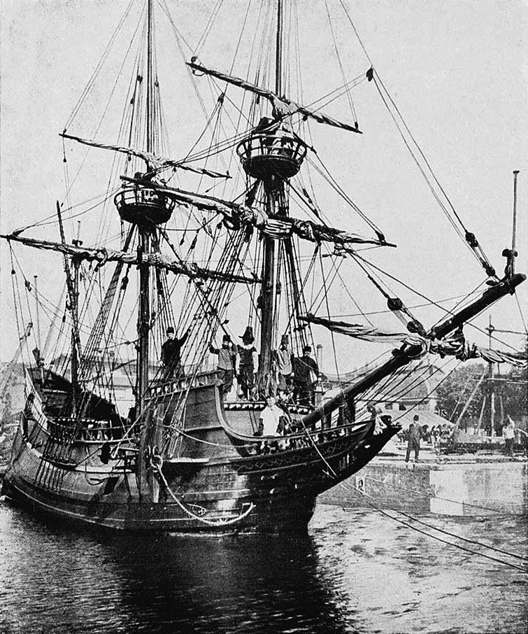 Front view of a replica of Henry Hudson's ship Halve Maen (Half Moon)